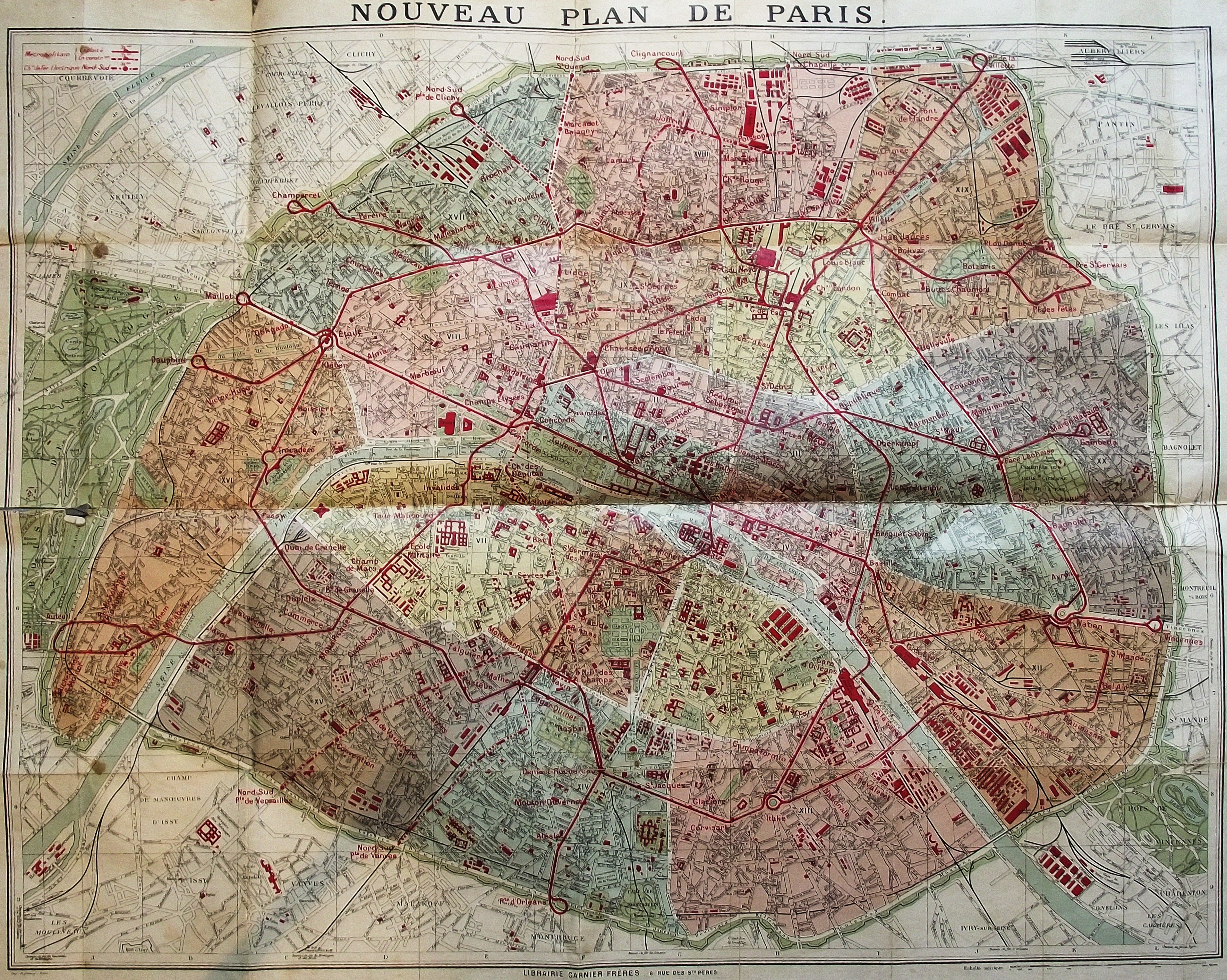 Paris metro map of the 1920's with two separate metro companies. From its contents the map must be before 1928 and later than 1920.